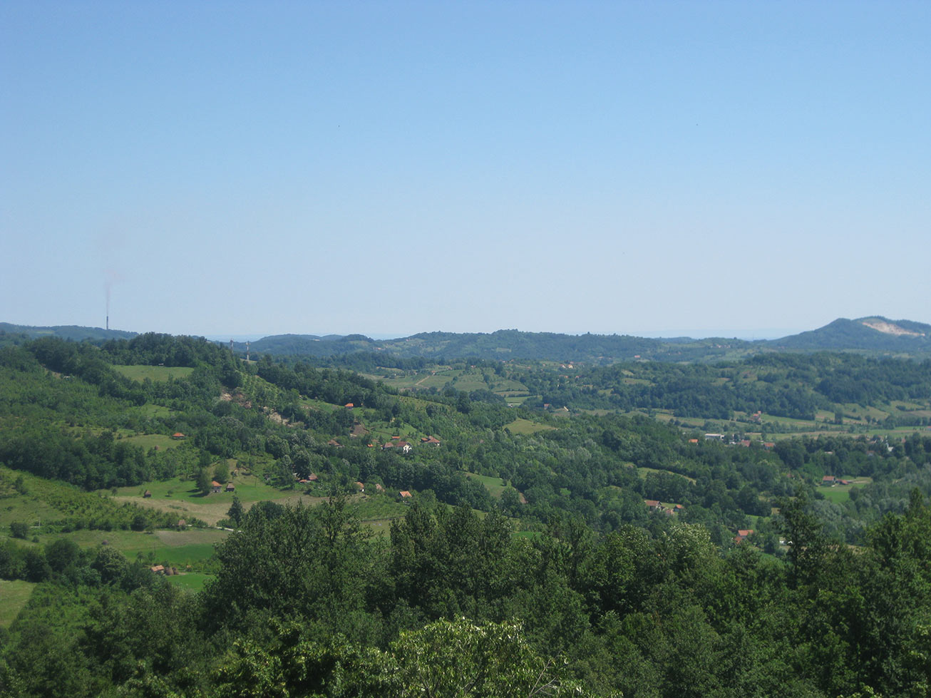 View on village Lipovice, Mountain Majevica in Bosnia & Hercegovina